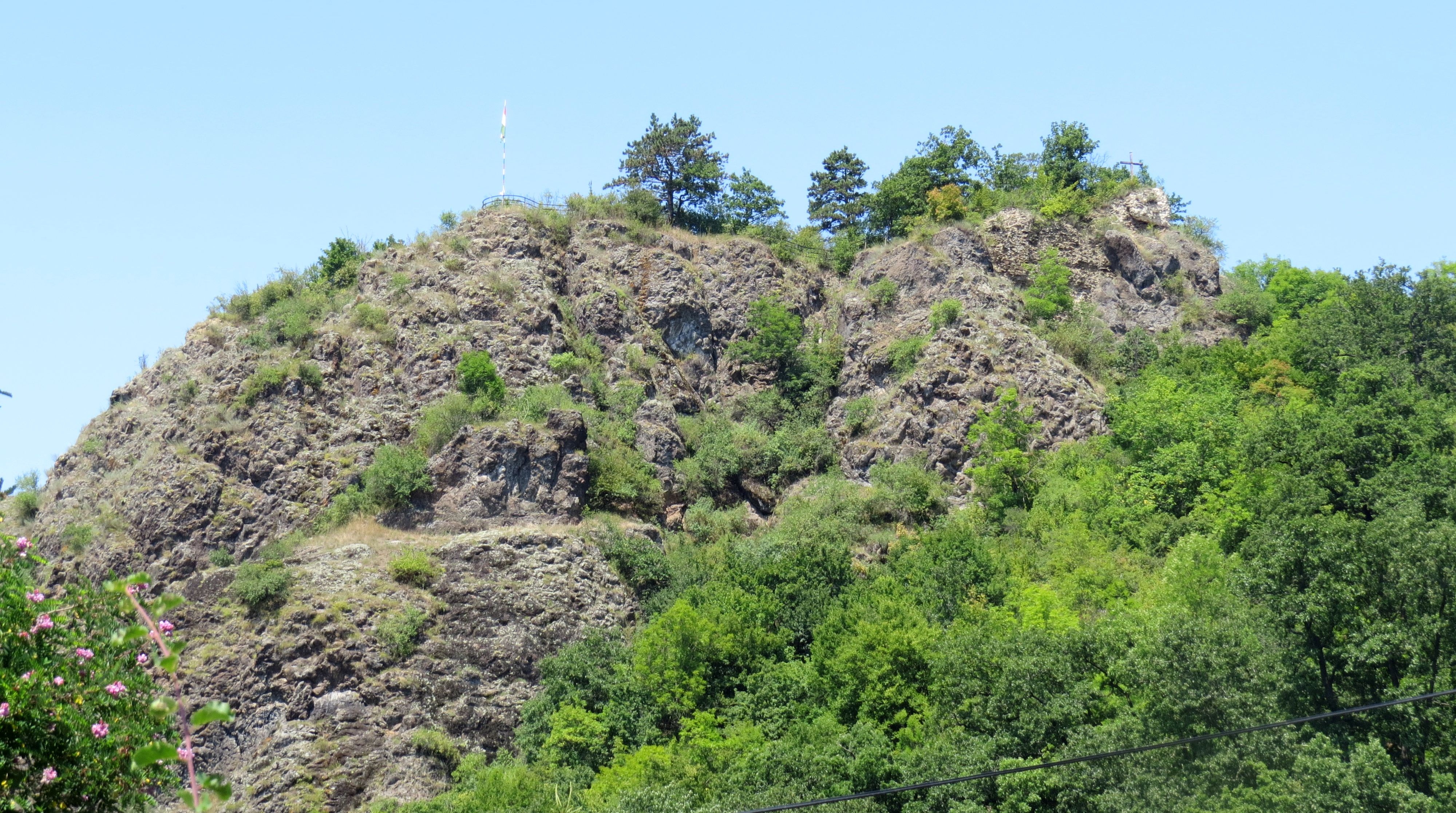 Castle of Szarvaskő